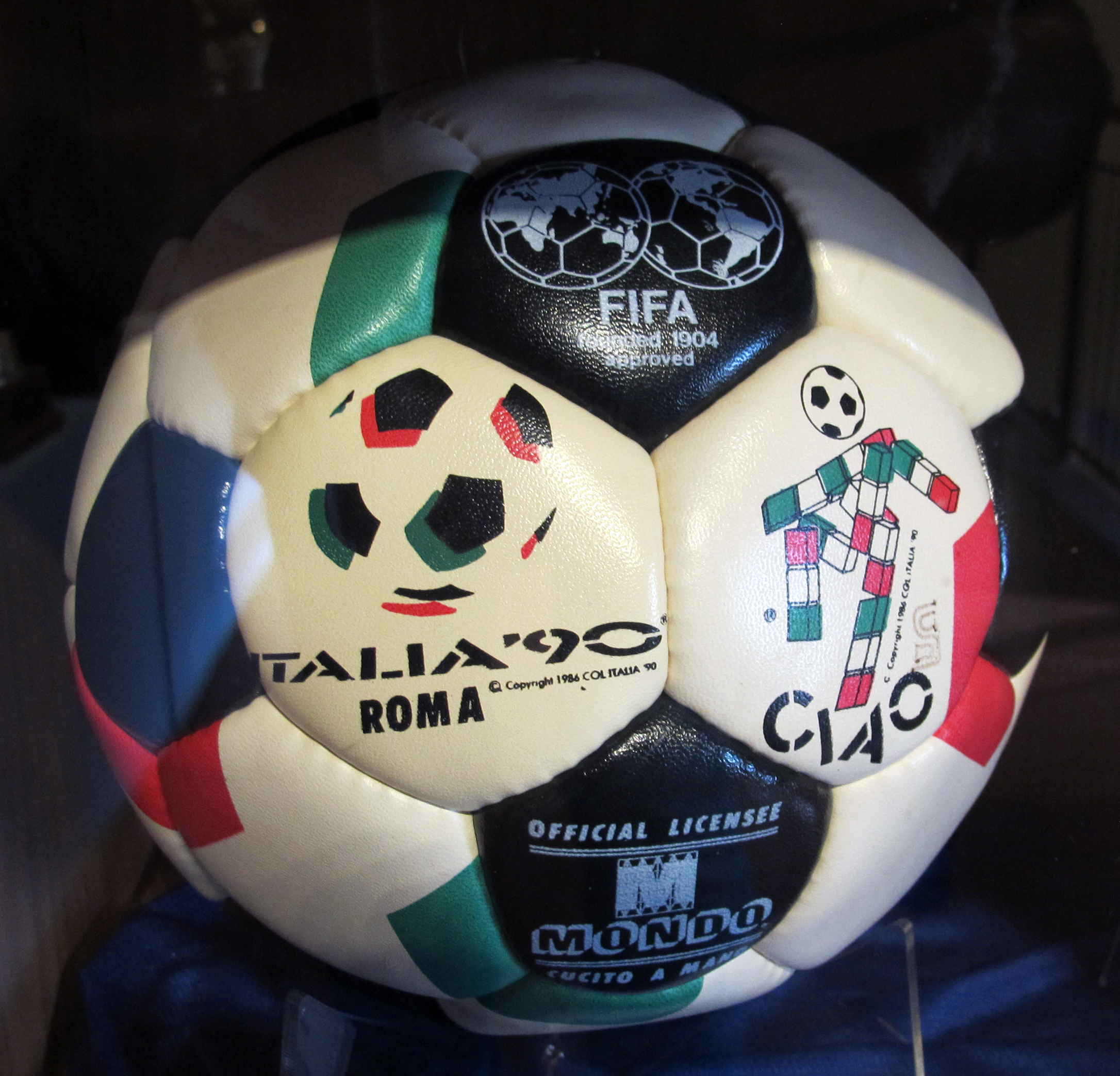 Collections of the Museo del Calcio (Florence)